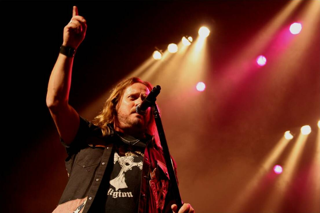 Lynyrd Skynyrd at Oslo Spektrum, Norway 2009